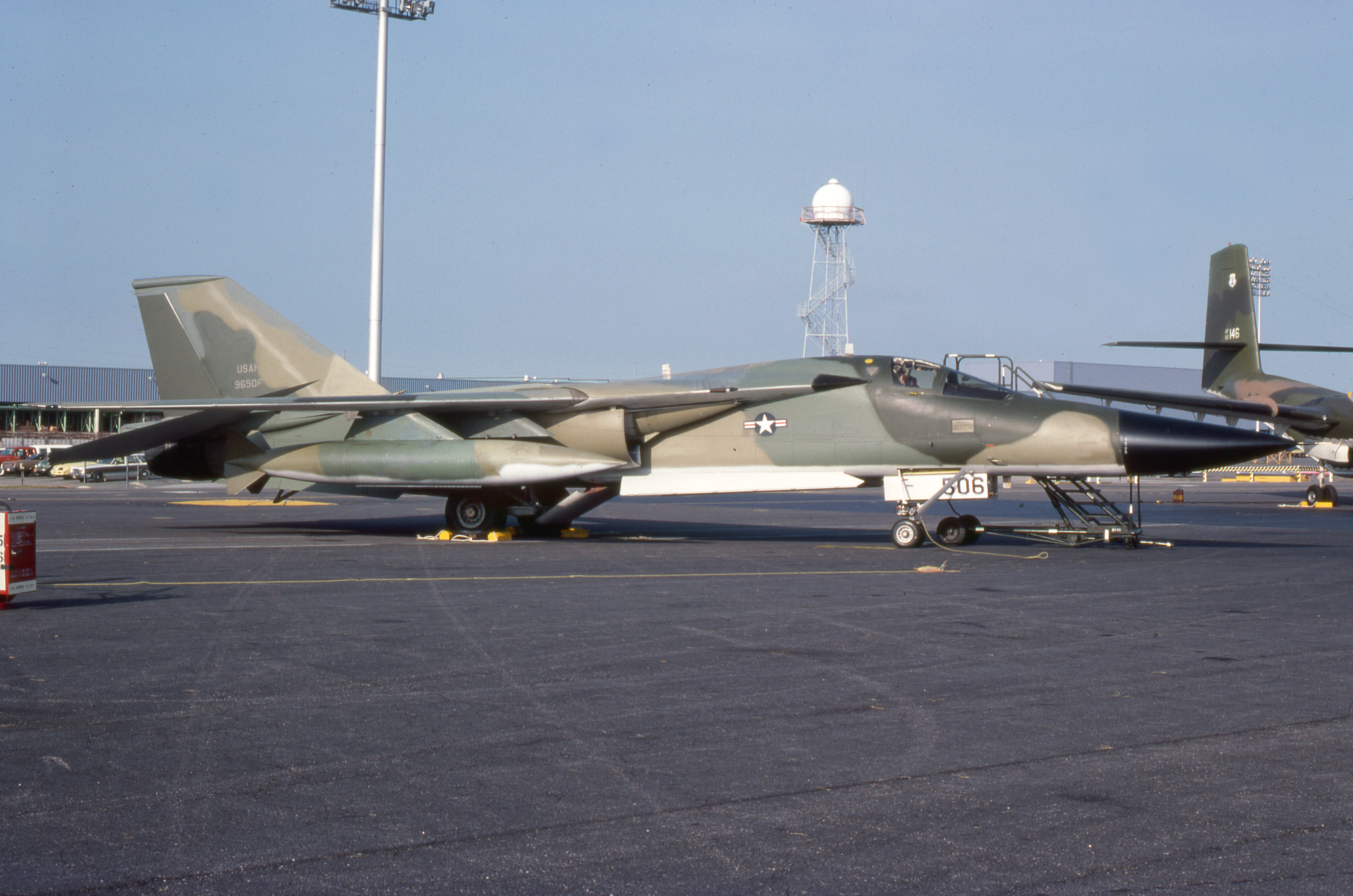 380th Bombardment Wing, Medium General Dynamics FB-111A 69-6506, Plattsburgh AFB New York 1980. Aircraft later converted to an F-111G when transferred to TAC. Later sold to Australia as A8-506